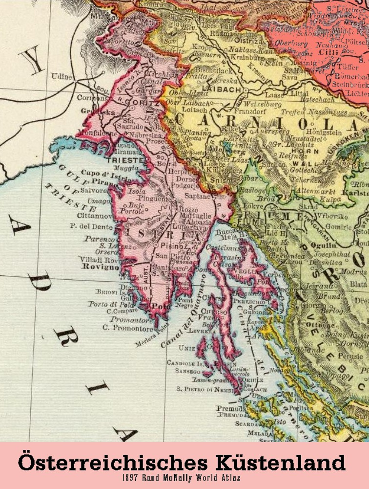 Historical map of the Austrian Littoral (Küstenland).